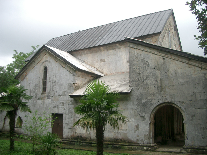 Khobi cathedral. Church of Dormition. Georgia